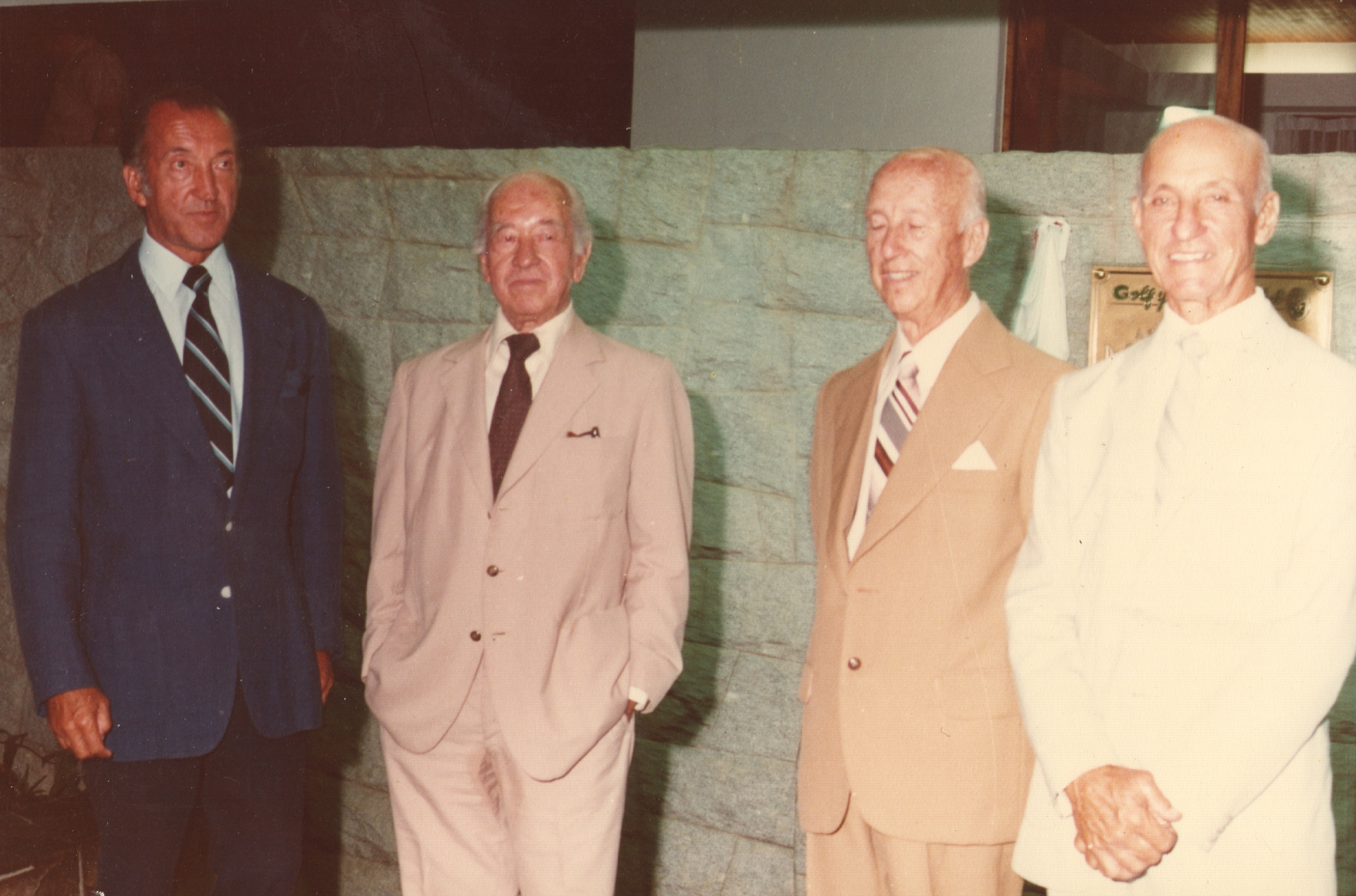 Placa Golf y Country Club